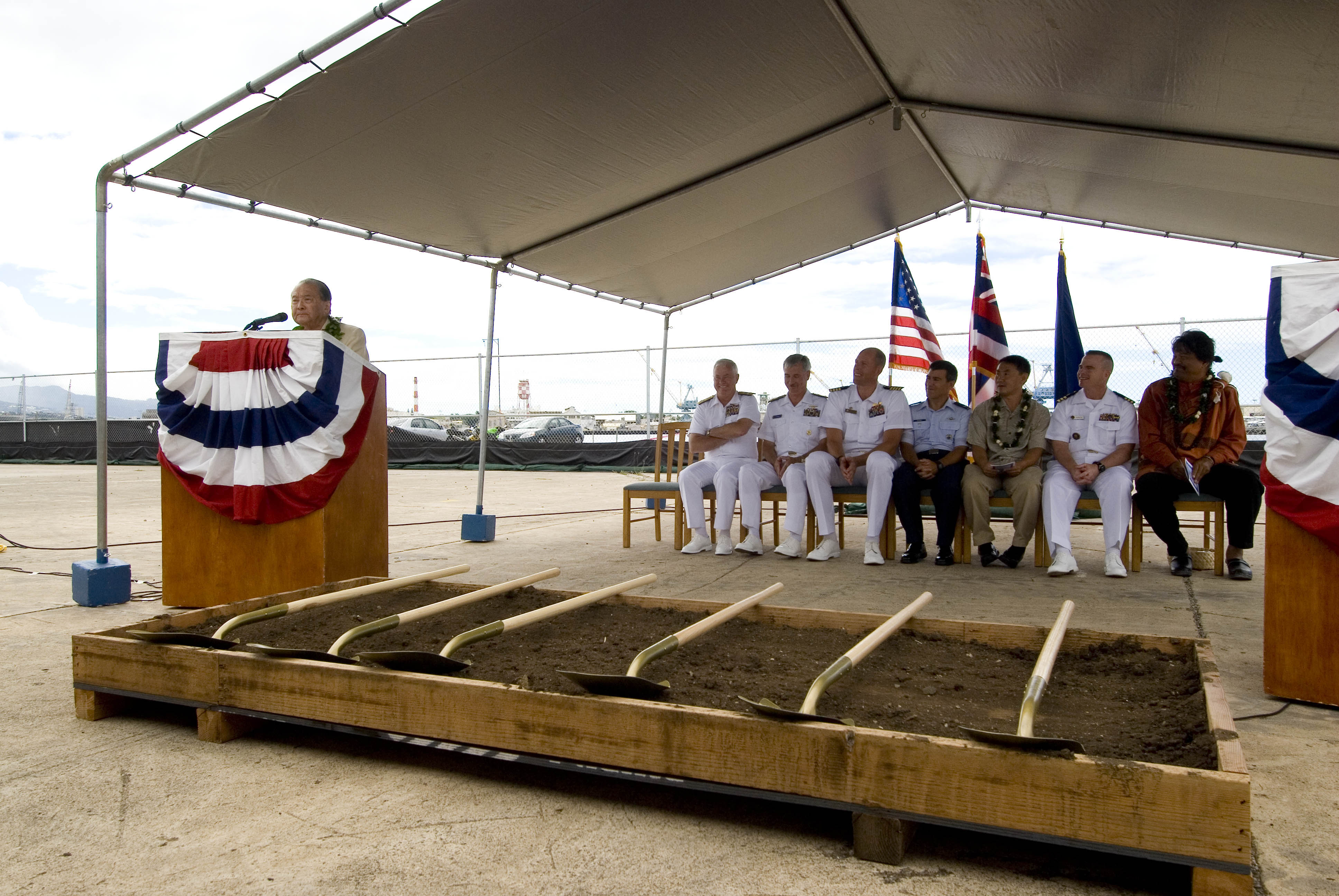 FORD ISLAND, Hawaii (Aug. 29, 2007) - Sen. Daniel K. Inouye speaks to guests at the groundbreaking ceremony of the Pacific Warfighting Center. The $20-million facility, expected to be completed July 2009, is being built to enhance joint and multilateral operational missions and training by providing and environment for commanders and their staffs within the PACOM region to train for scenarios that can either be live, virtual or networked. U.S. Navy photo by Mass Communication Specialist 3rd Class Paul D. Honnick (RELEASED)